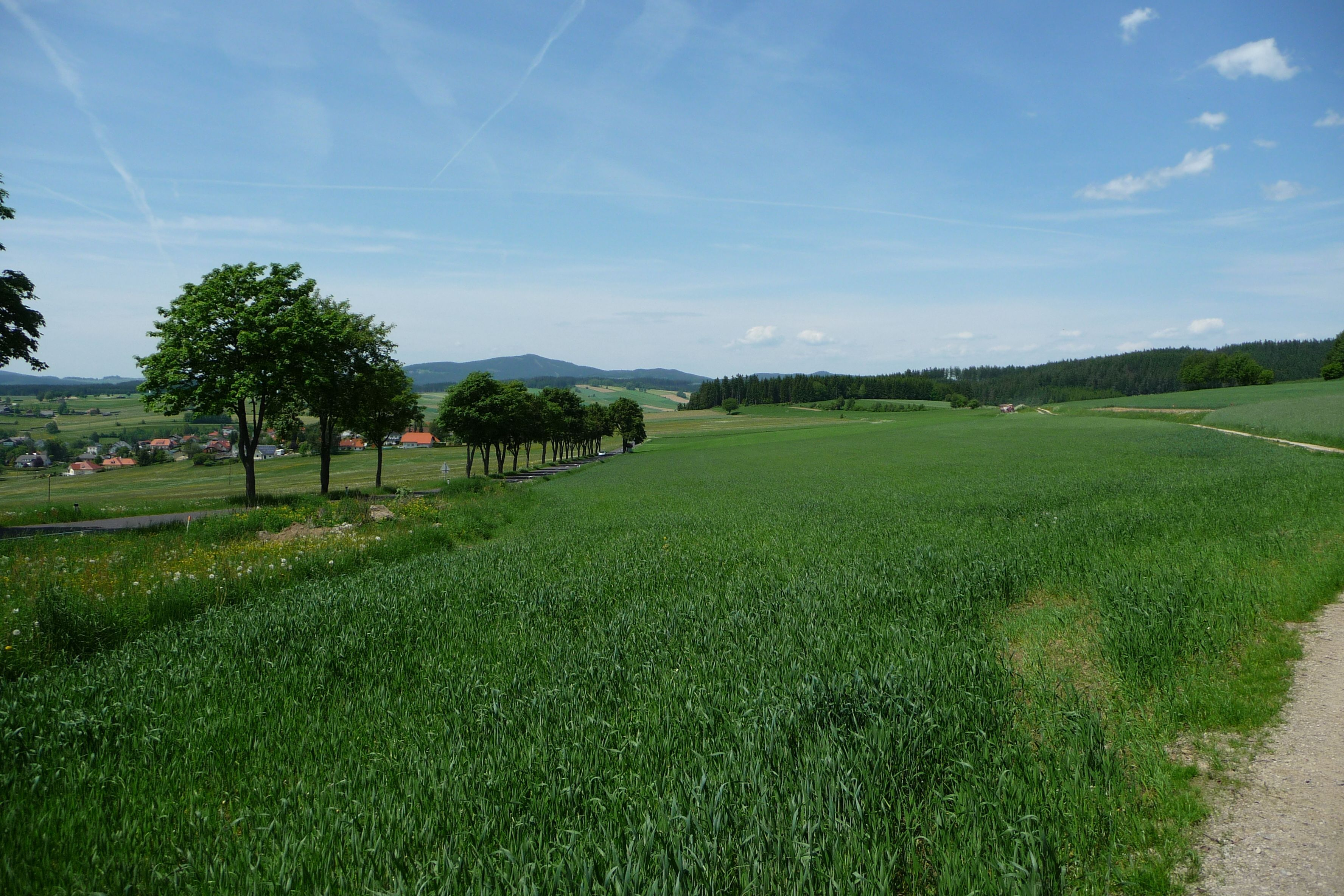 Surrounding area of Schenkenfelden